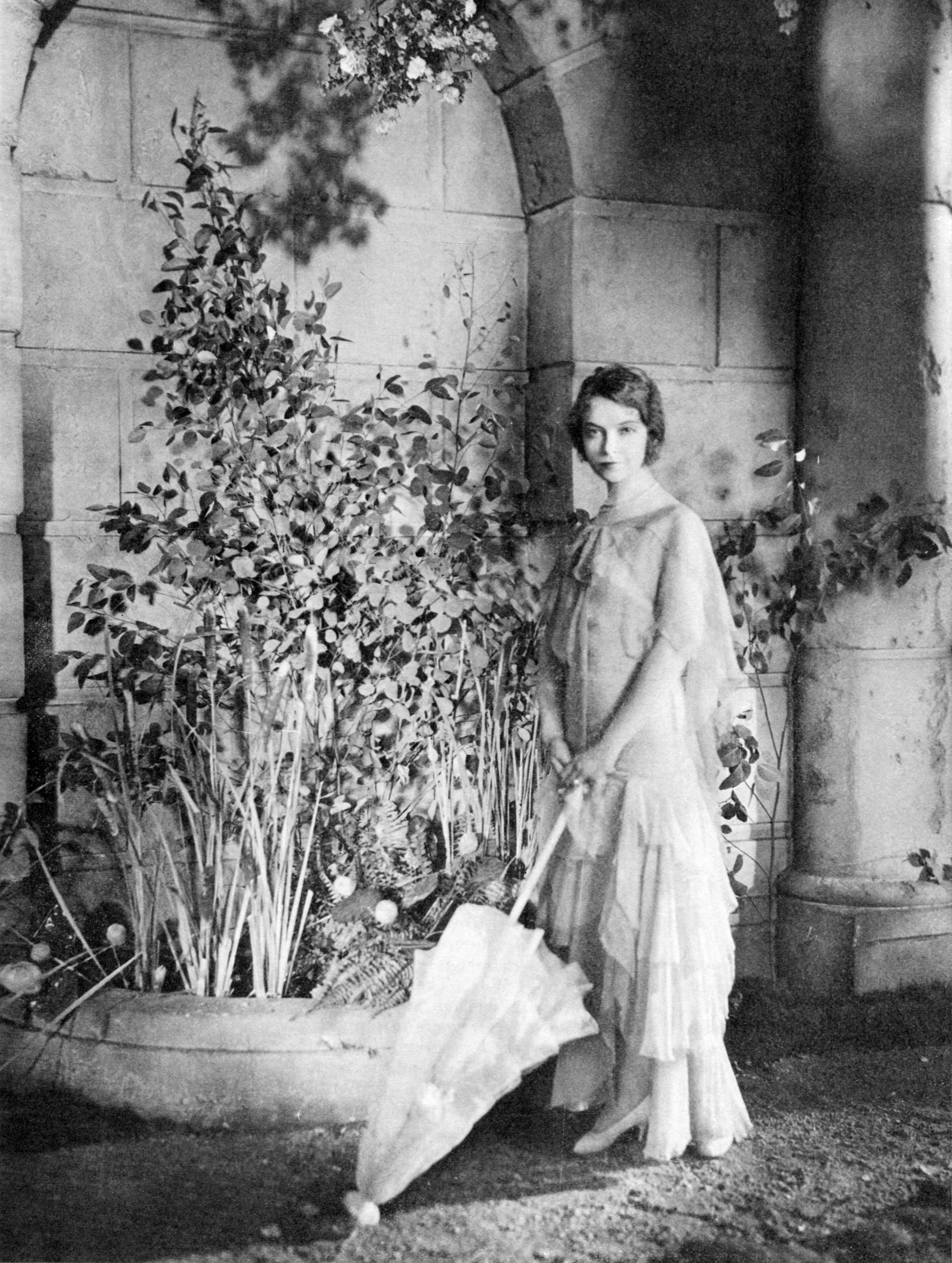 Promotional photograph for Jed Harris' 1930 production of Uncle Vanya, starring Lillian Gish